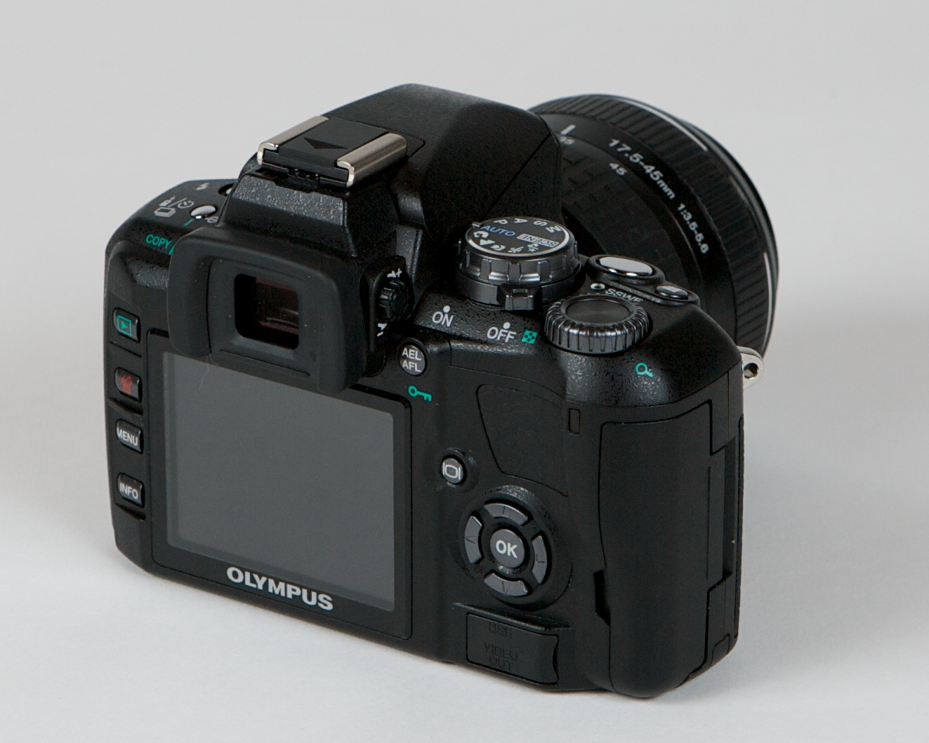 Olympus E-410 with ZUIKO DIGITAL 17.5-45mm 1:3.5-5.6 back view.